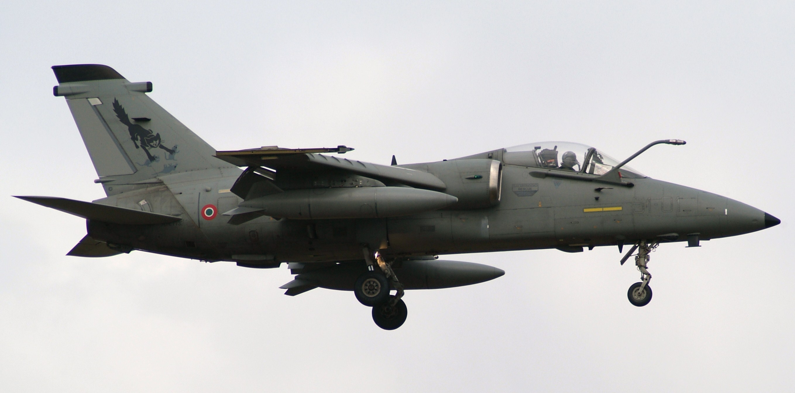 These two AMXs are wearing slightly different versions of the same squadron's markings, a black cat catching mice.